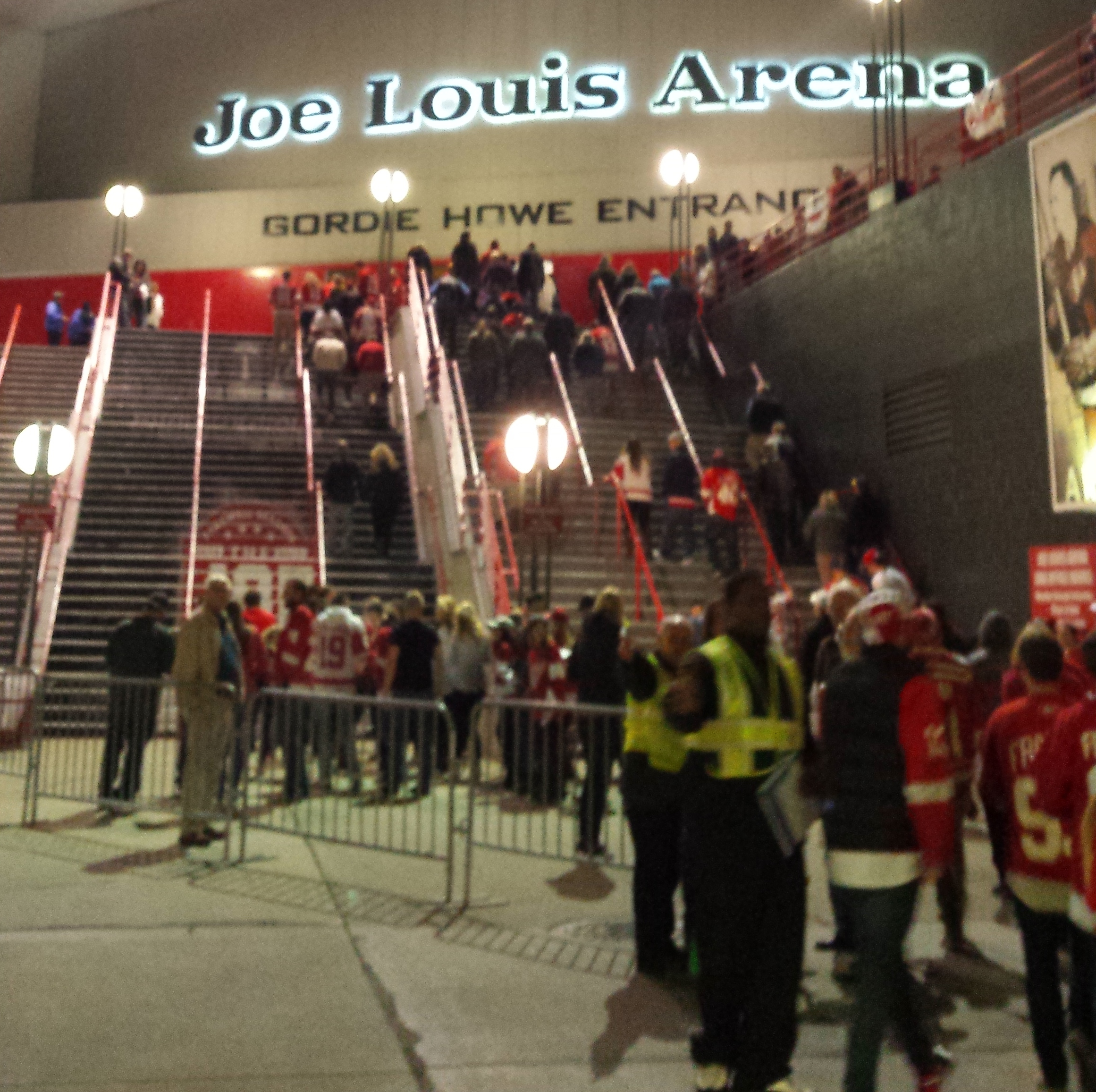 Detroit Red Wings vs. Vancouver Canucks - November 10, 2016